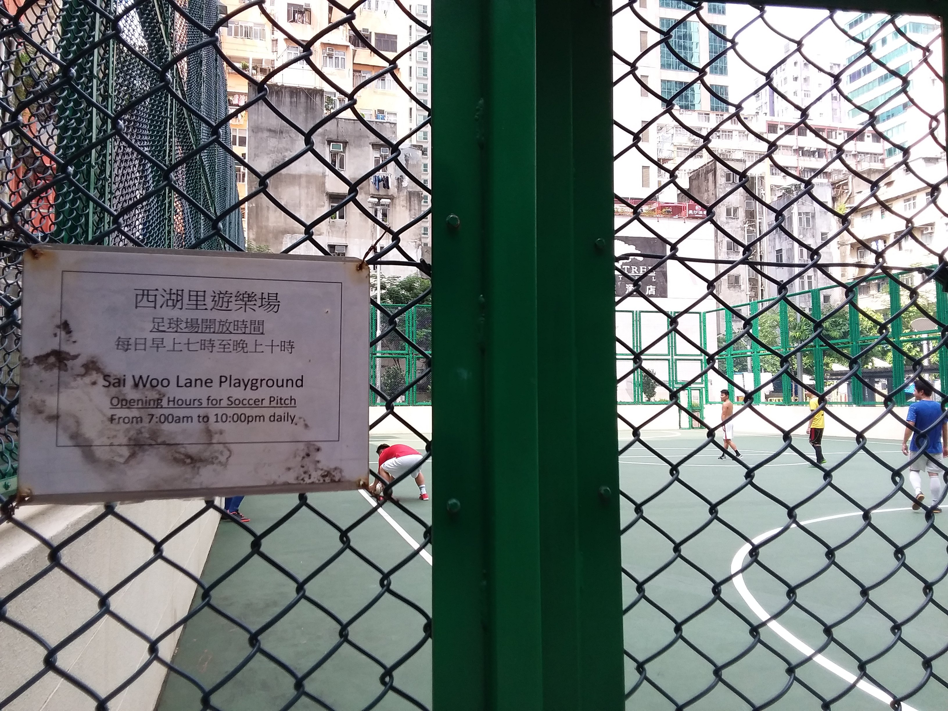 HK 西營盤 Sai Ying Pun 西湖里 Sai Woo Lane in September 2018